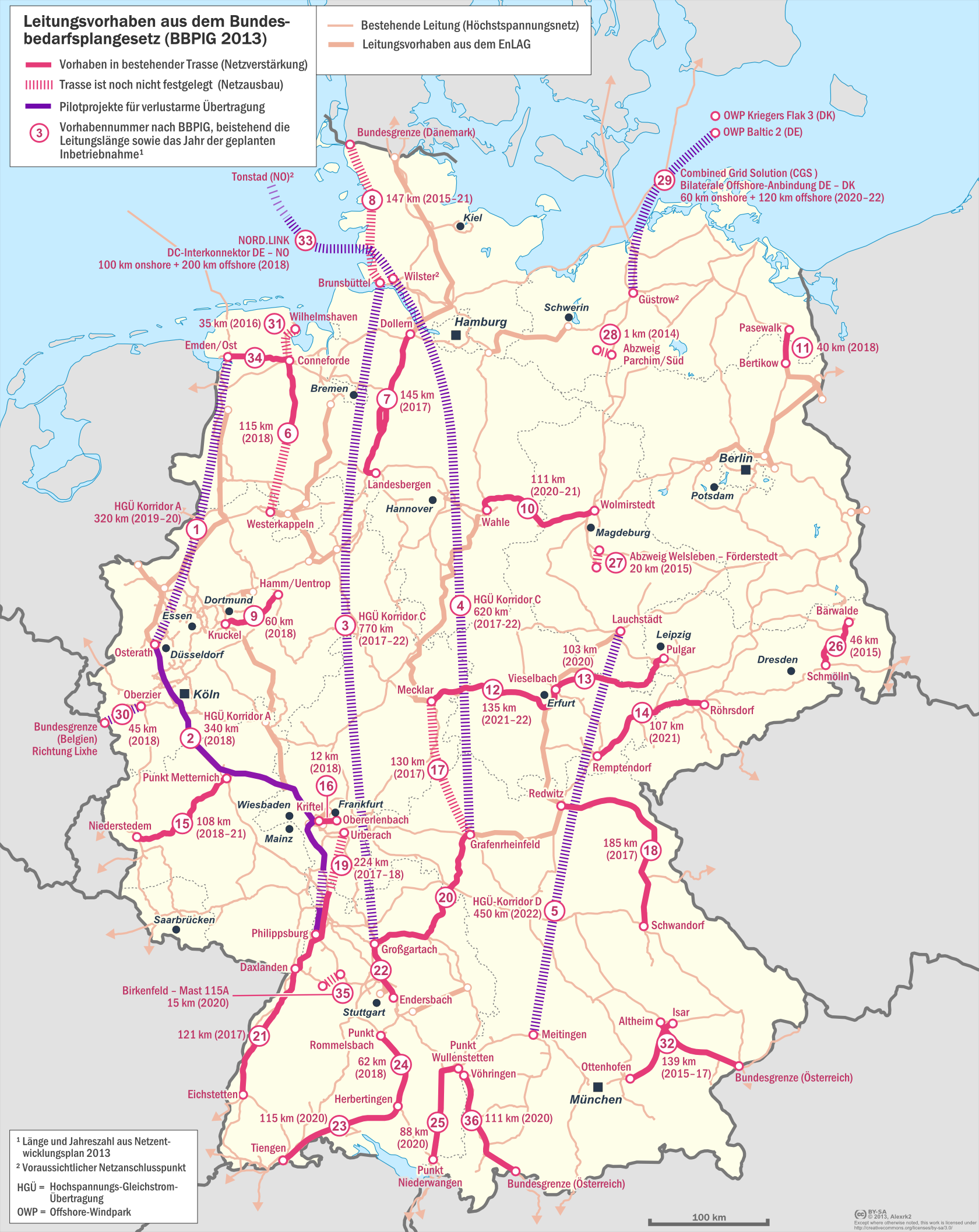 Planned high-voltage grid expansion in Germany according to the Federal Requirements Plan (2013) The Federal Requirements Plan contains a list of the necessary projects – including start and end points for each new construction project. The federal government is presented with a draft such as this at least every three years. This starts the legislative process which concludes with the necessity of all projects being determined by law.